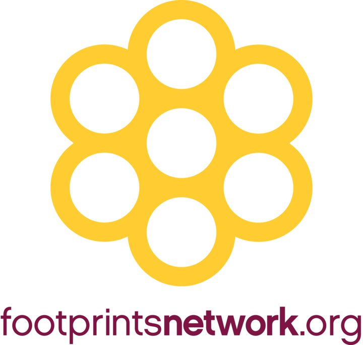 Footprints is an organization dedicated to fundraising through micro-donations technology.